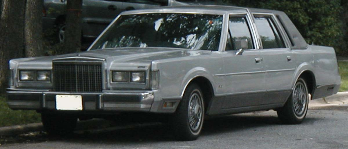 1985-1987 Lincoln Town Car photographed in USA.